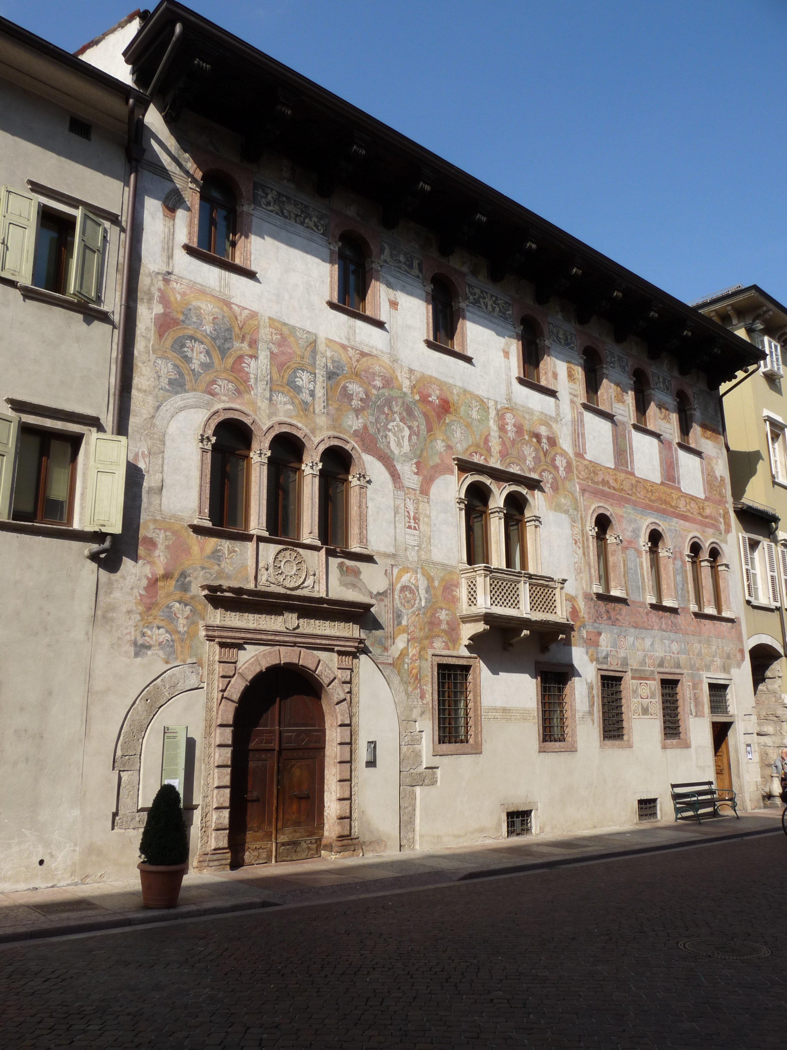 Trento (Italy): front of Palazzo Quetta Alberti-Colico, from south-east